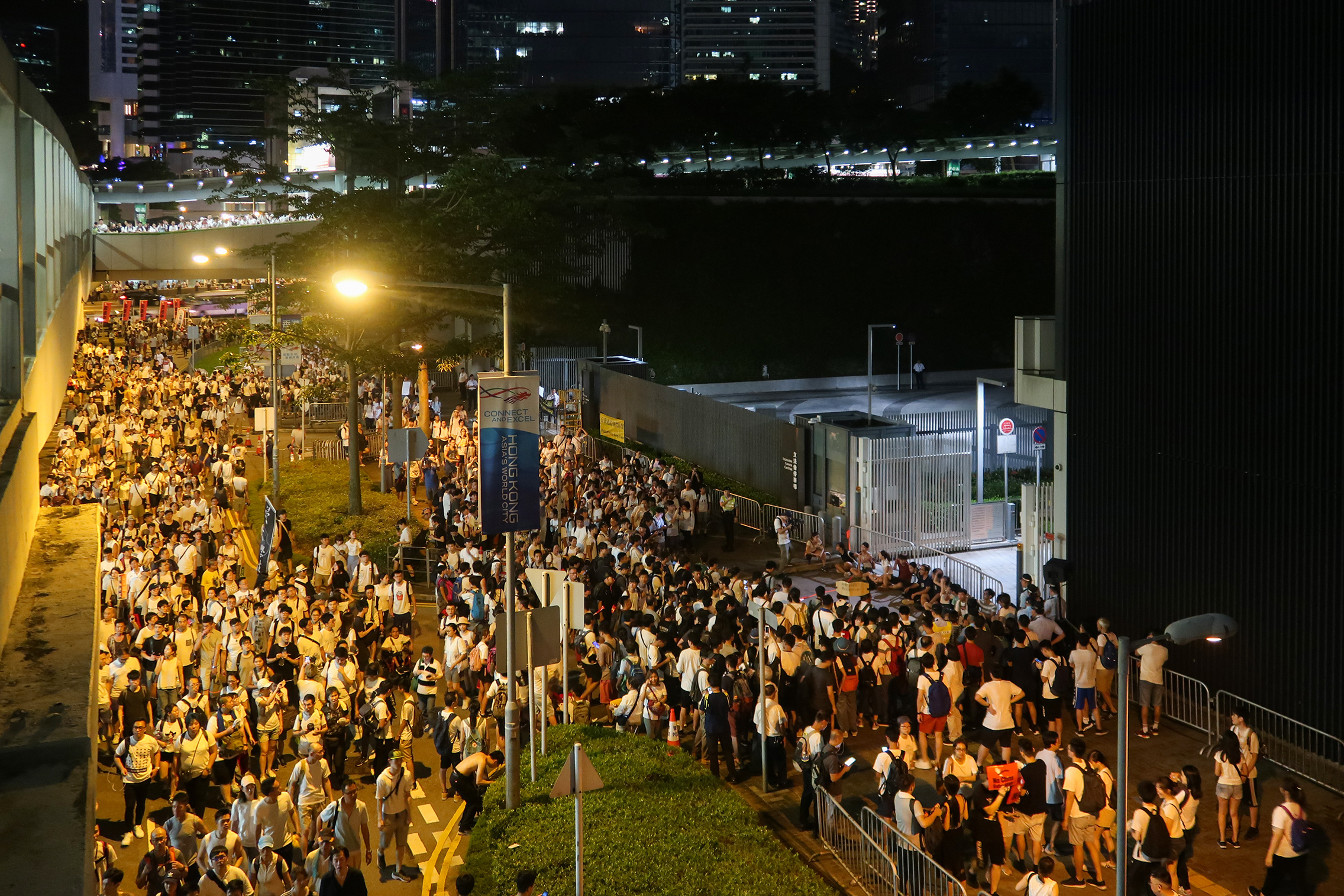 Demosistō protest in Legestive Council car entrance